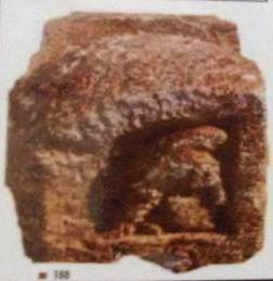 The sarcophagus lid was carved during the end of the 3rd or the beginning of the 4th century AD.